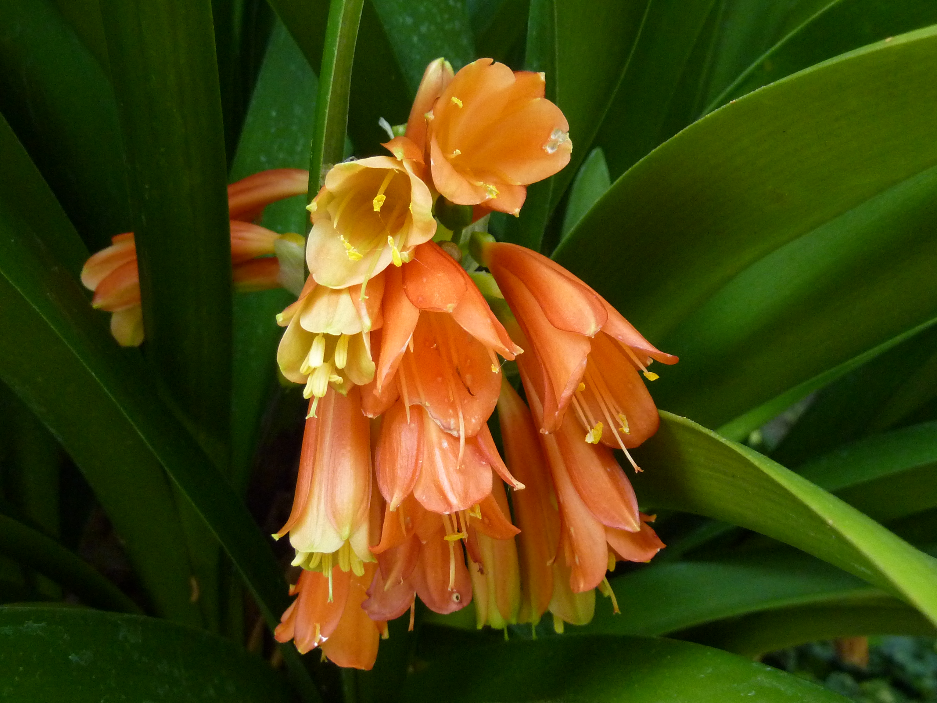 Clivia x cyrtanthifolia at the Botanical Garden of the University of Basel.